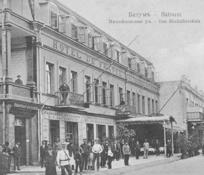 Mikhaiolovskaya Street in Batumi, circa 1900s Source: Government of Adjara